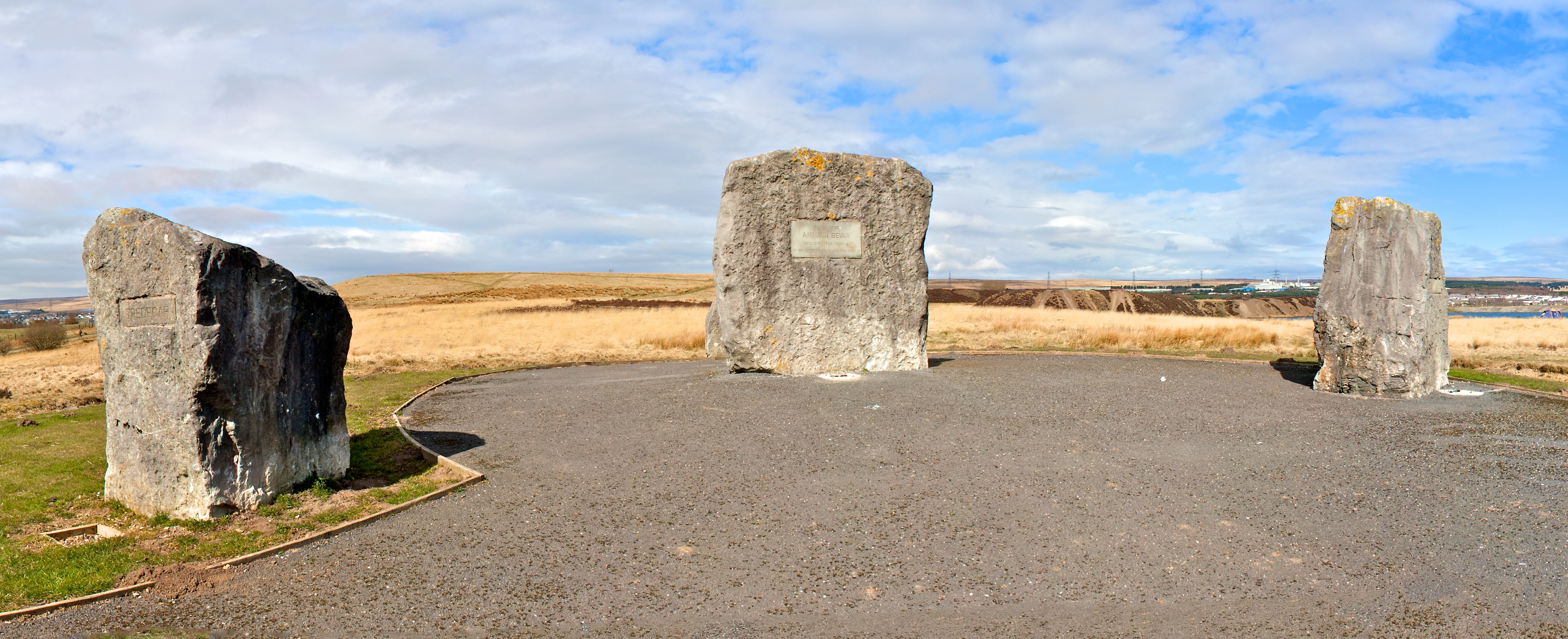 The memorial stones of Aneurin Bevan in Tredegar